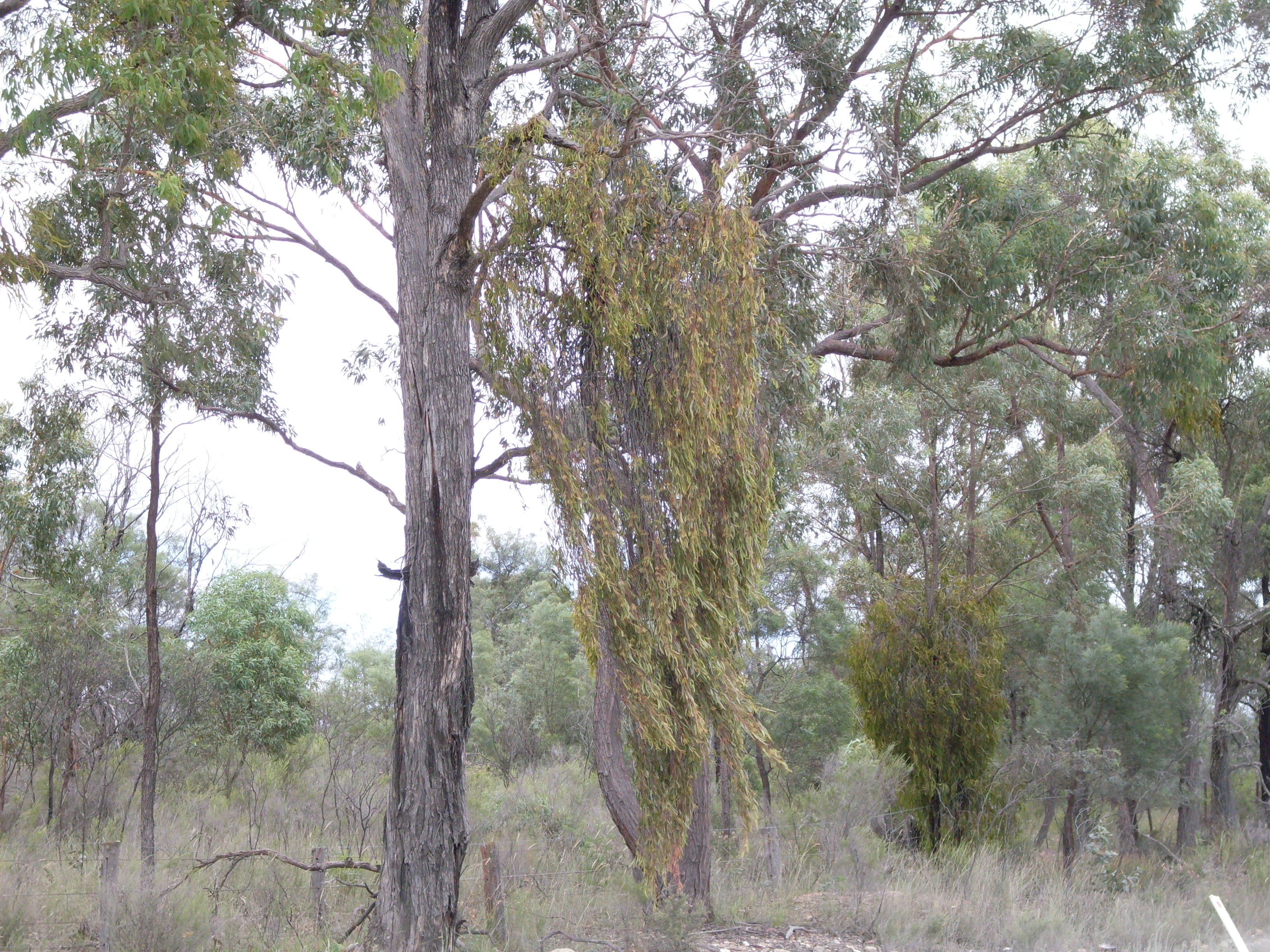 Mistletoe (Muellerina eucalyptoides). Near Ulan, NSW Australia, January 2009.